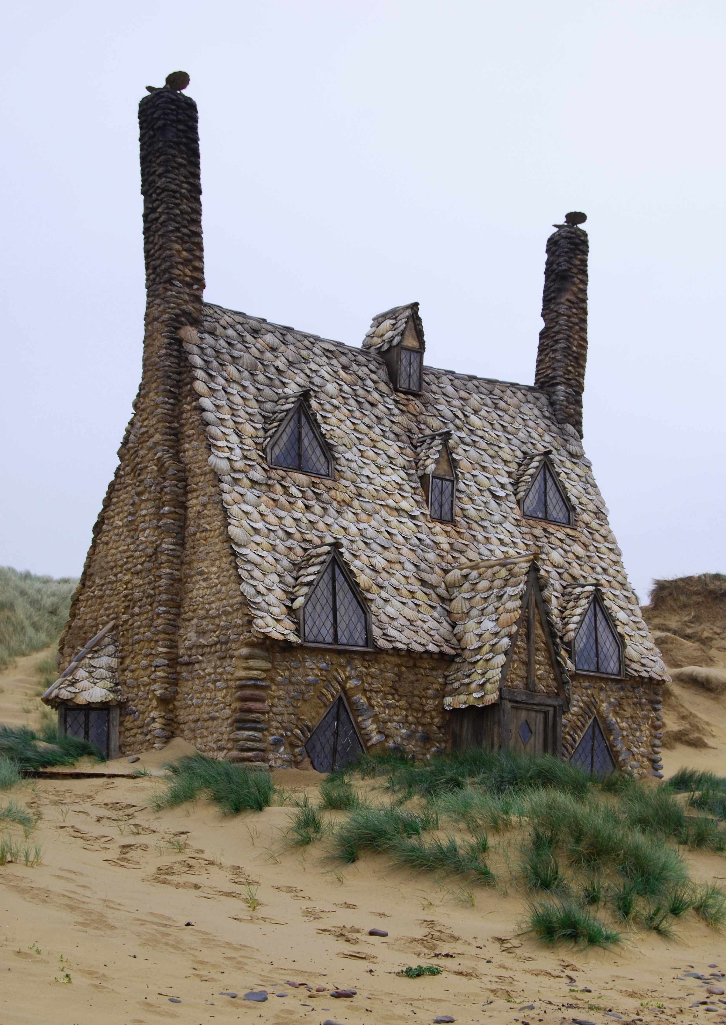 The Shell cottage constructed on Freshwater Beach West for the filming of part of the Harry Potter film, "The Deathly Hallows" Please see photograph notes for citation.